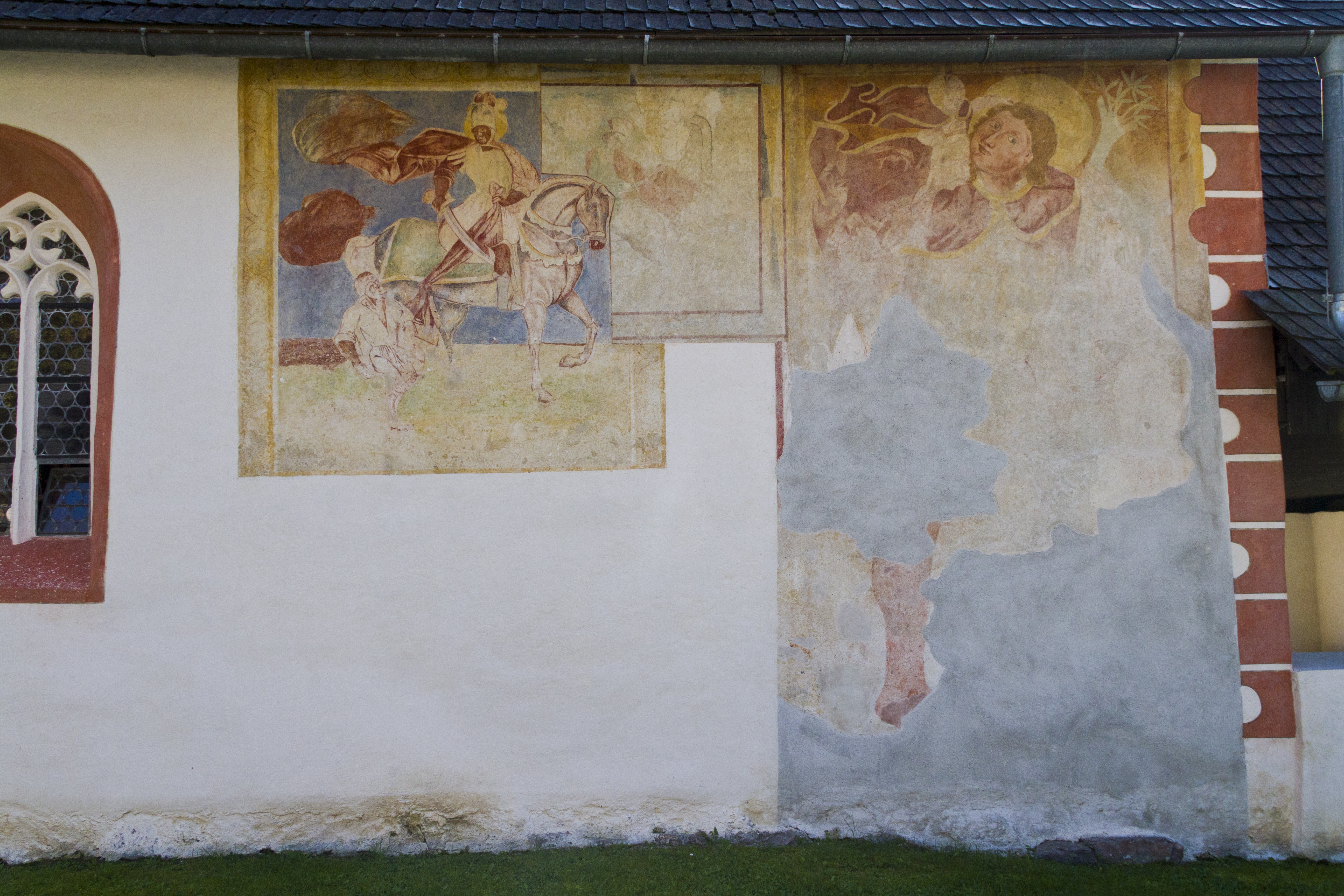 Roman Catholic Church Saint Ulrich and St. Martin Frescos